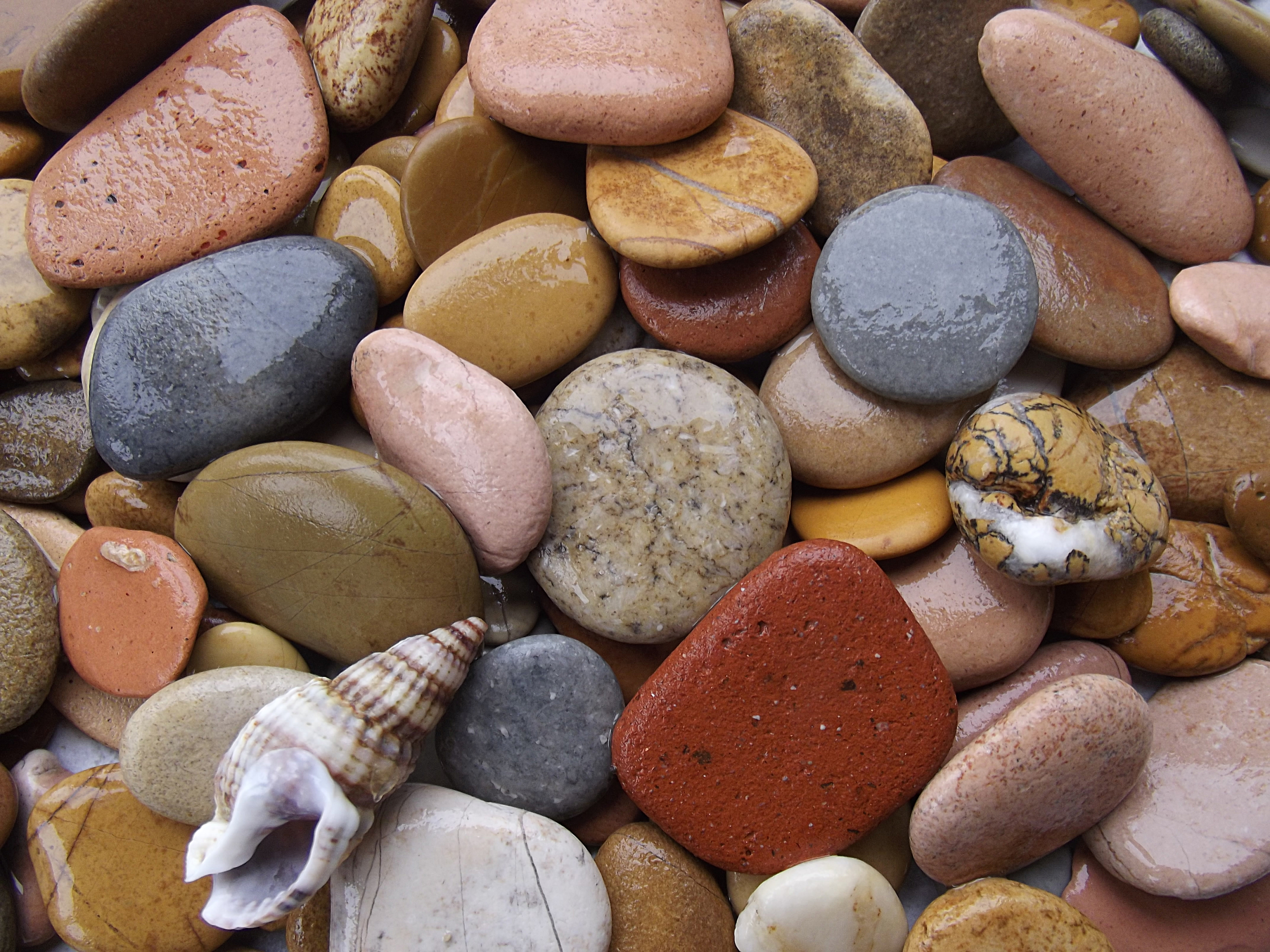 Shingle. Shore of the Adriatic sea. Conero - Italy